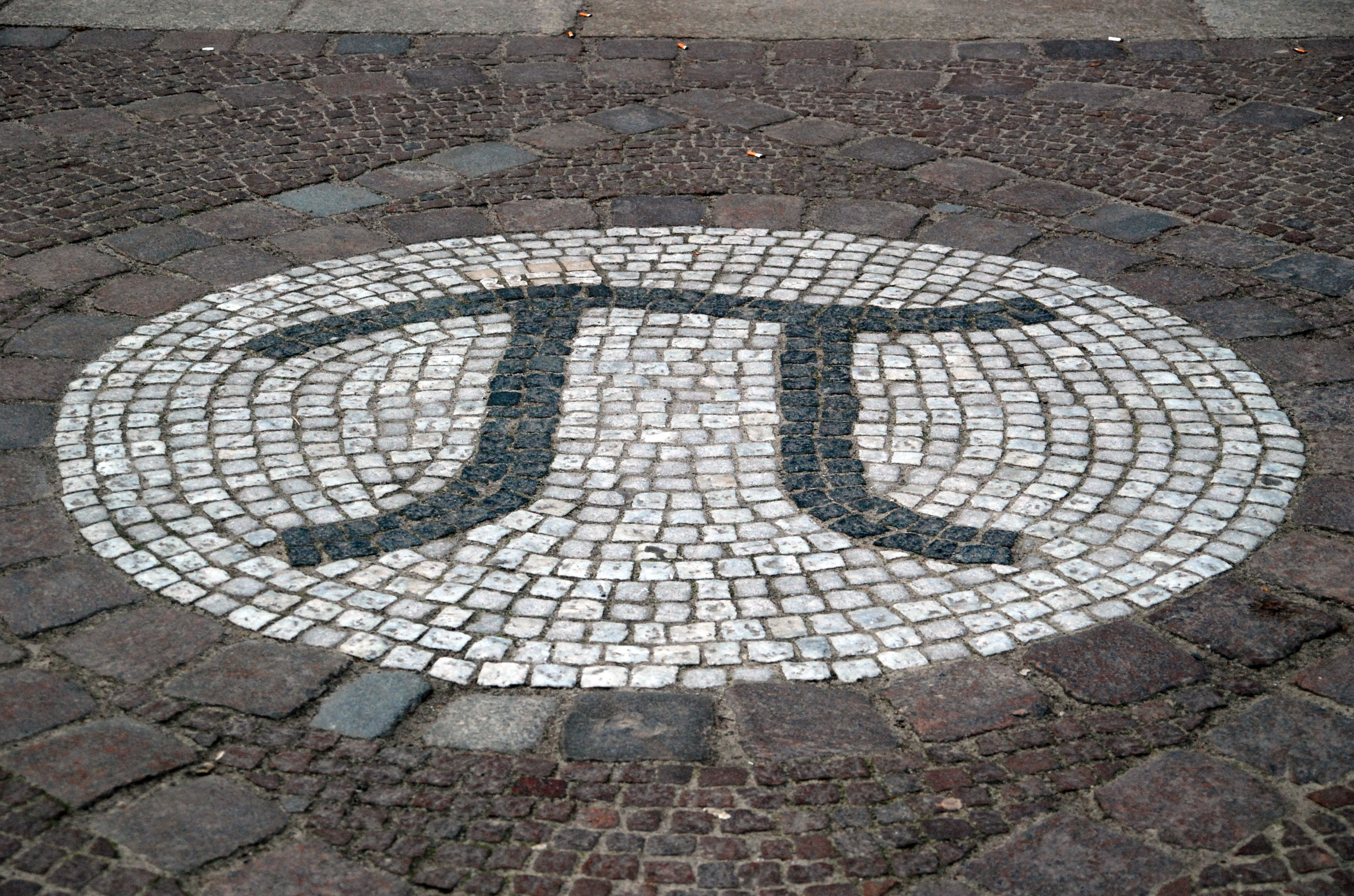 entrance mathematician's building, TU-Berlin